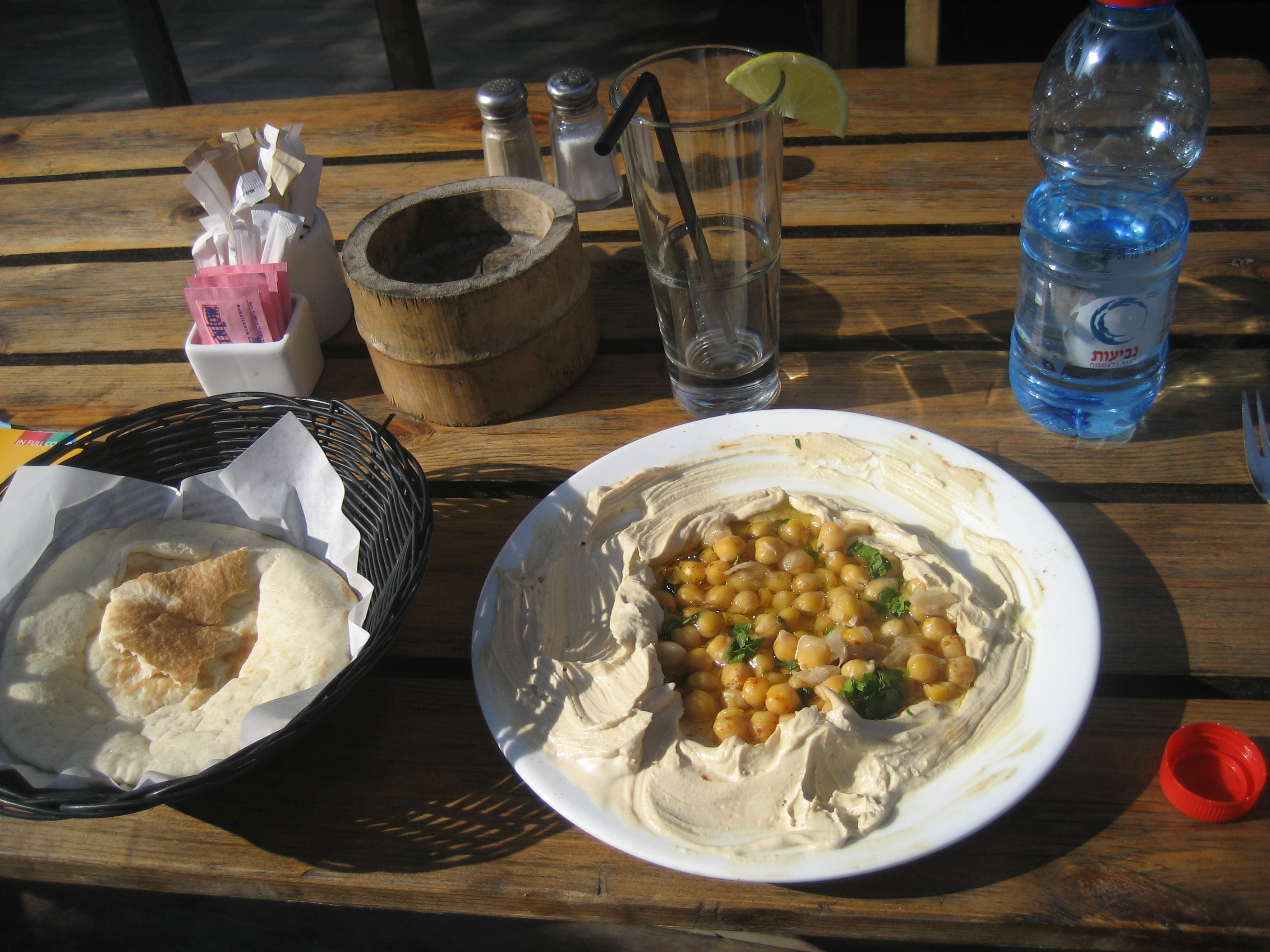 Trip to Israel